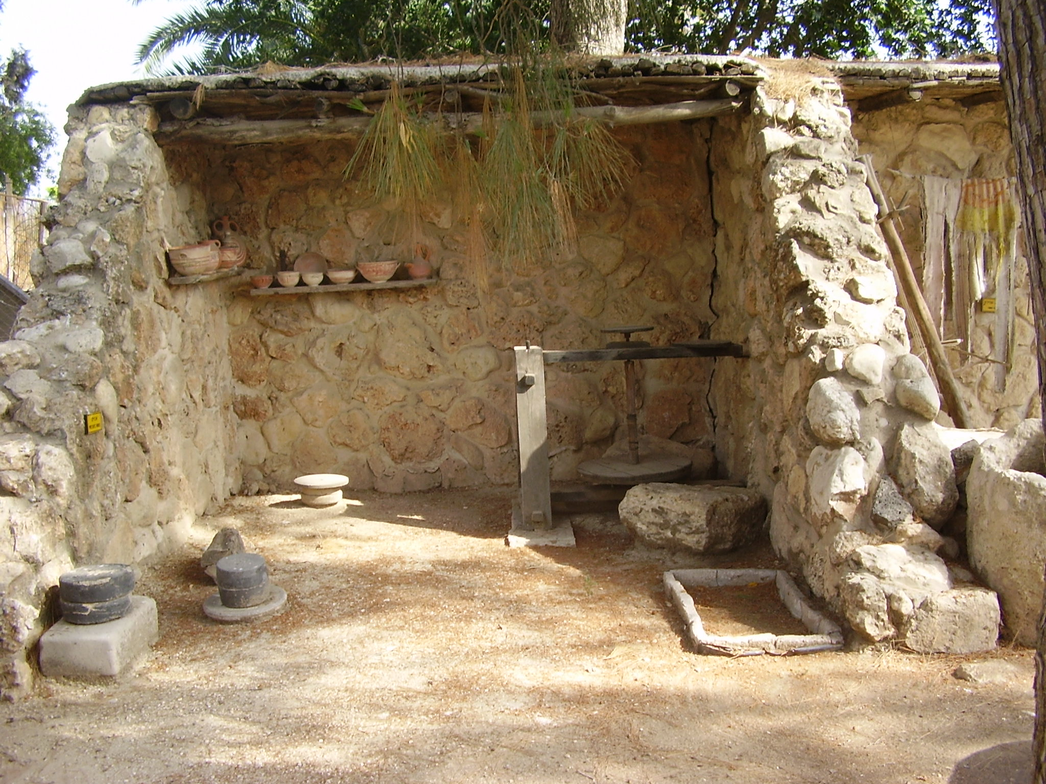 reconstructed phillistine house in kibbutz revadim